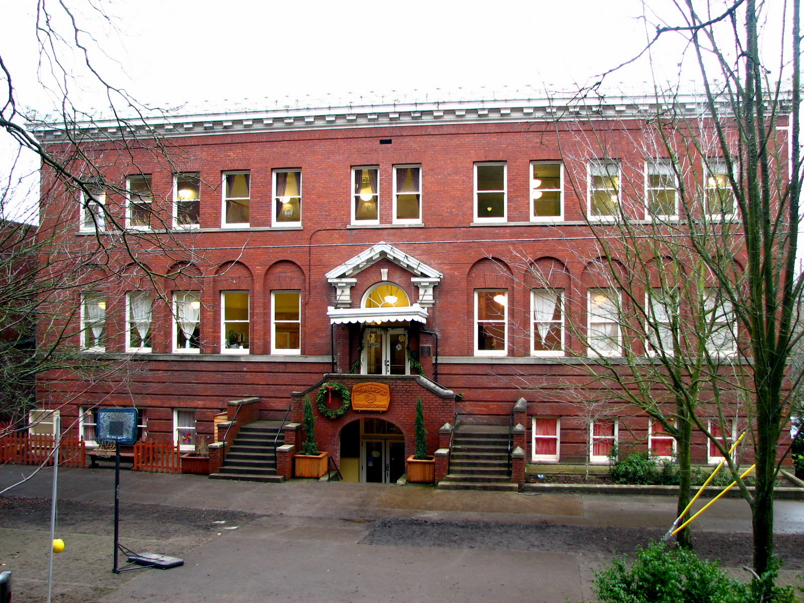 The historic Neighborhood House (built 1910), located at 3030 Southwest 2nd Avenue in Portland, Oregon, United States, is listed on the US National Register of Historic Places. It is currently in use as a school.